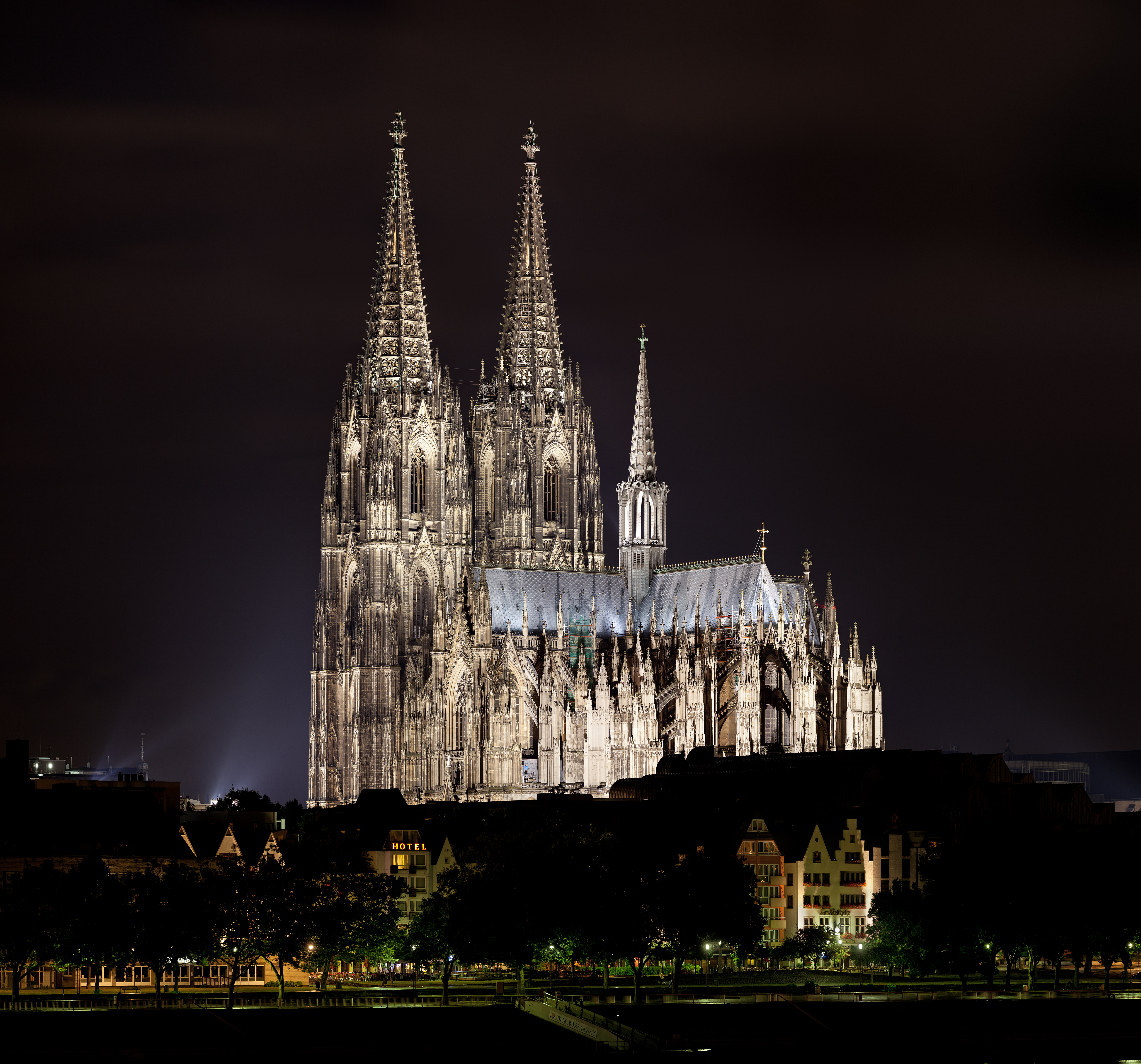 Cathedral in Cologne, Germany.